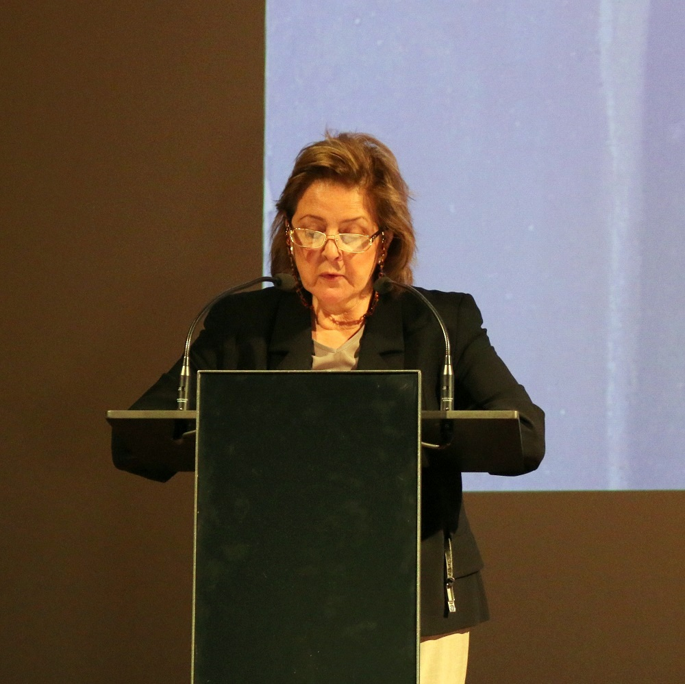 Layla S Diba, Persian art scholar, during the Qajar art conference in France, June 2018. Diba was the director of Negarestan Museum in Tehran in the late 1970s. Photo: Persian Dutch Network